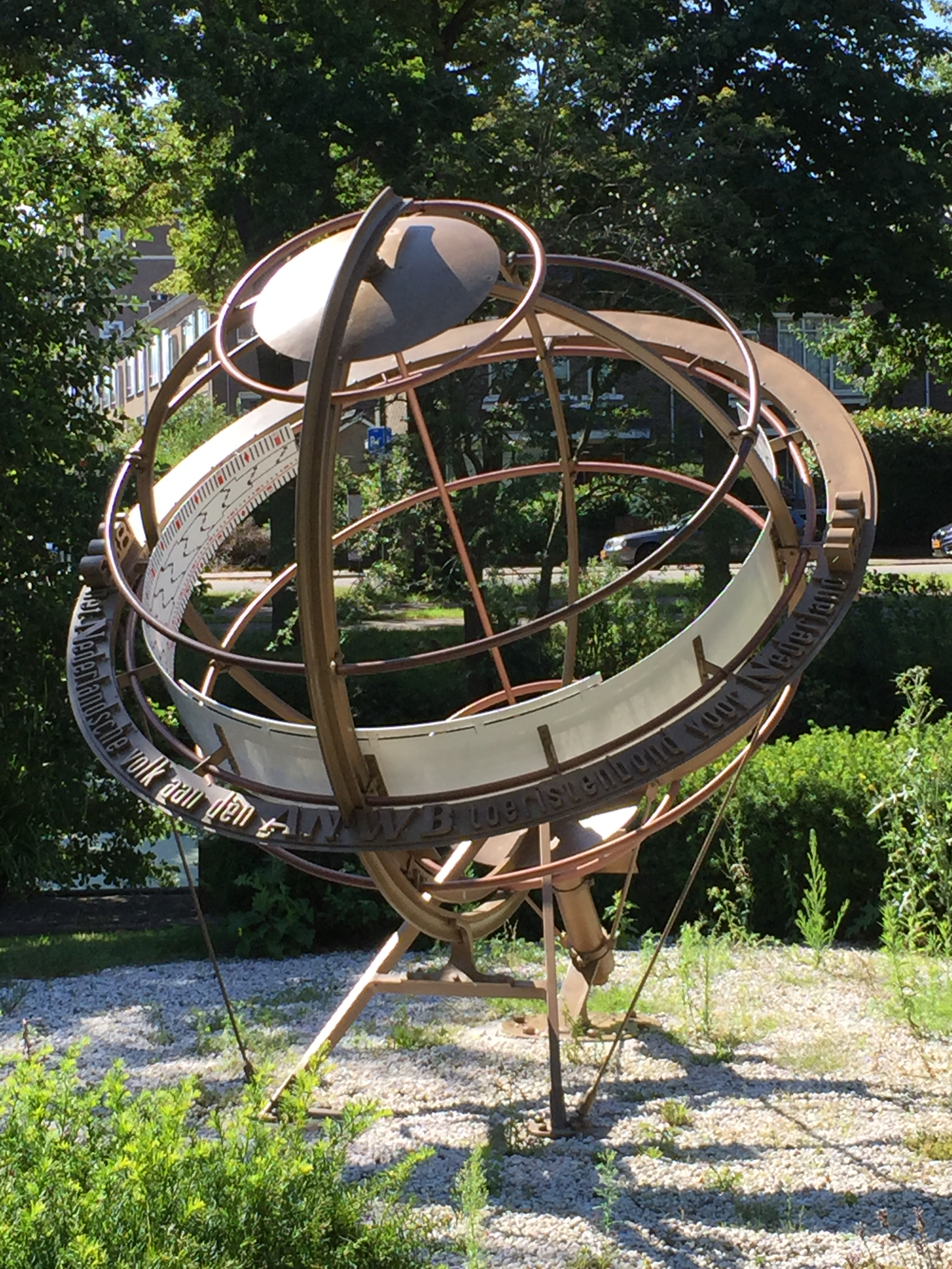 Sundial The Hague (Albert Boeken), 2020